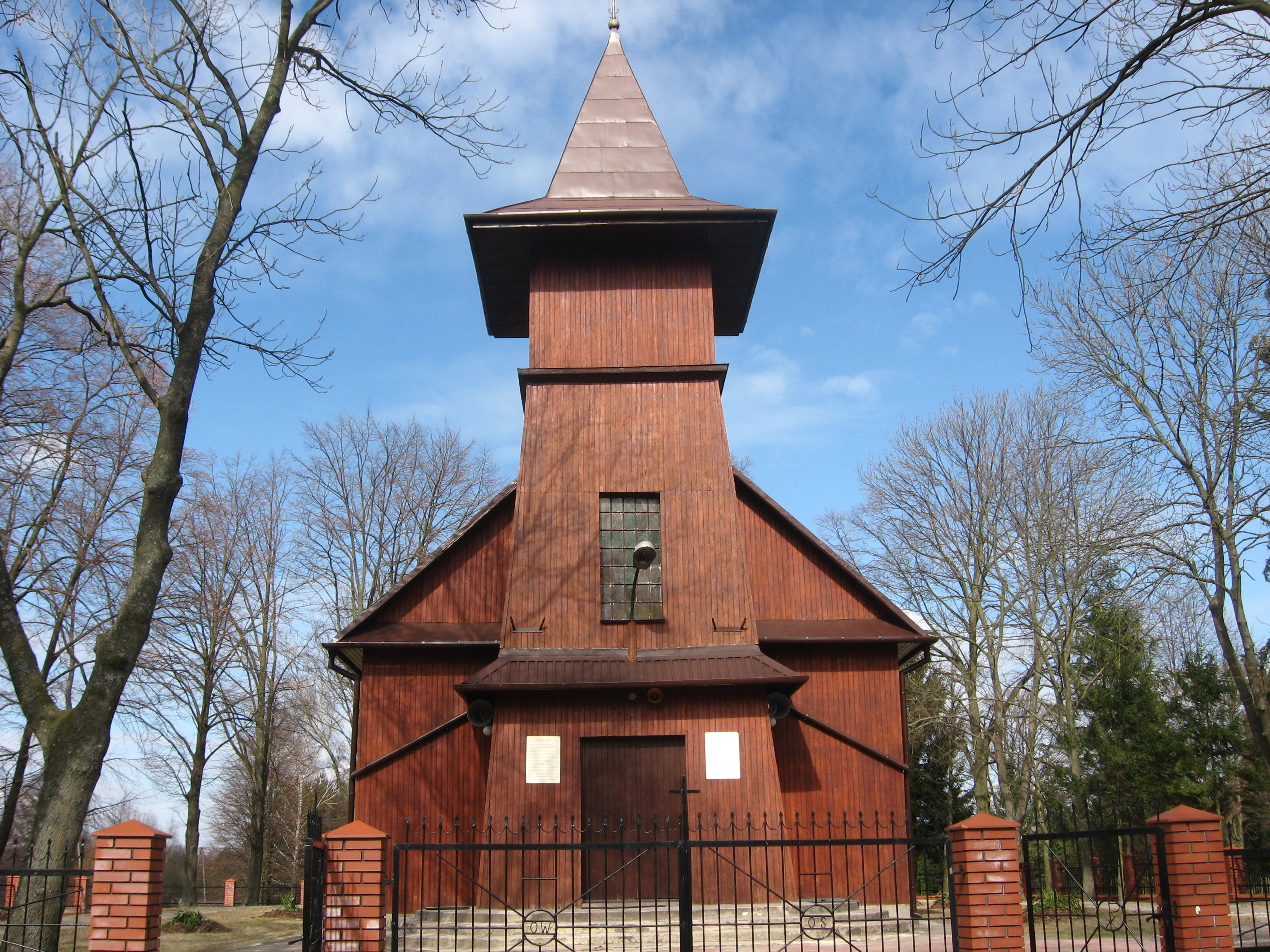 Saint Andrew Bobola churches in Wytyczno